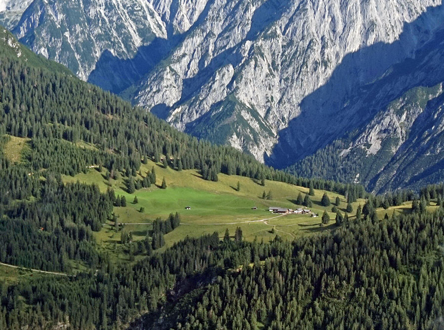 Walder Alm in Austria. This photograph was taken with a Sony Alpha a5000.